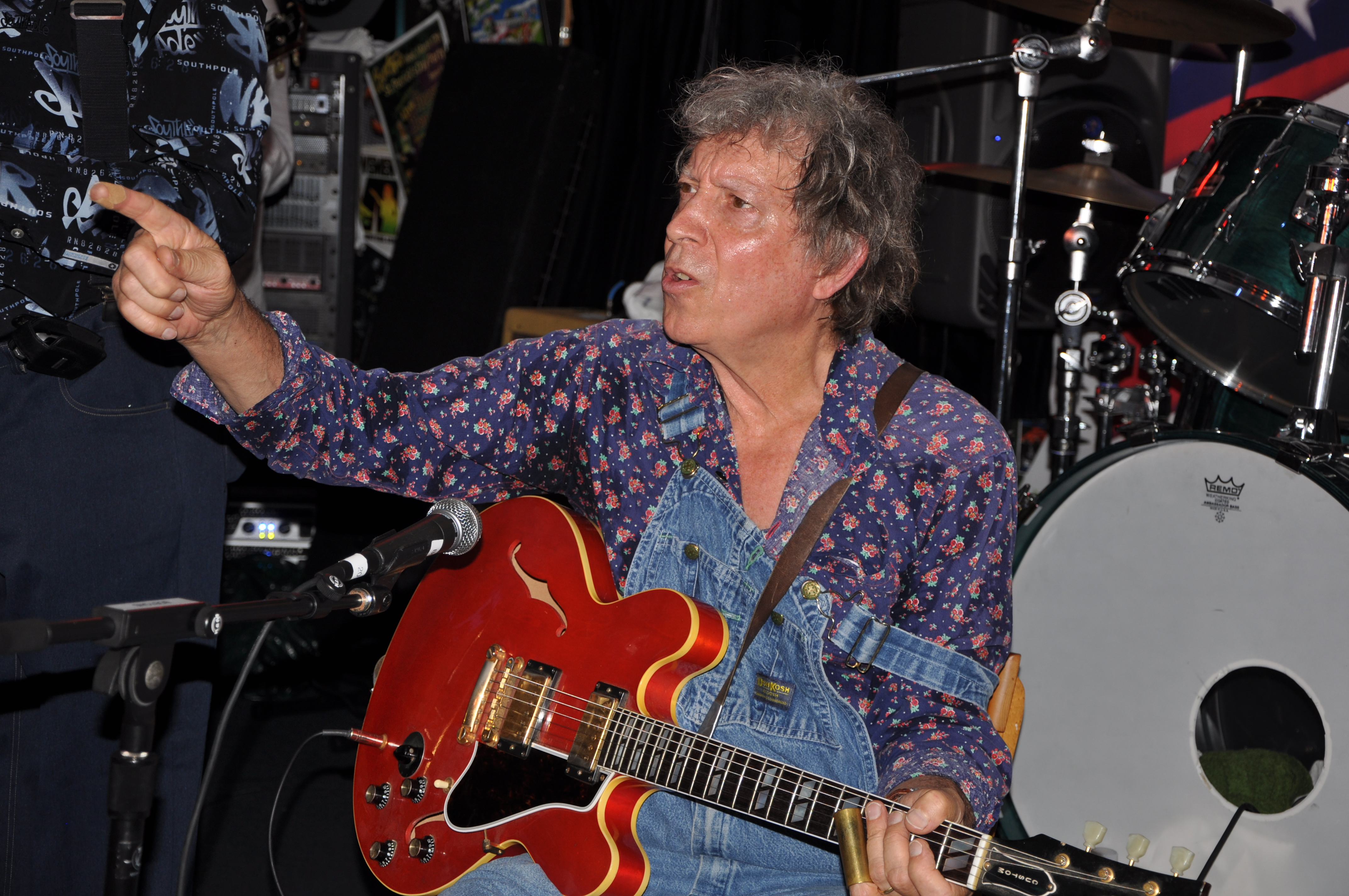 Elvin Bishop performing at Boston's On The Beach on July 3, 2010